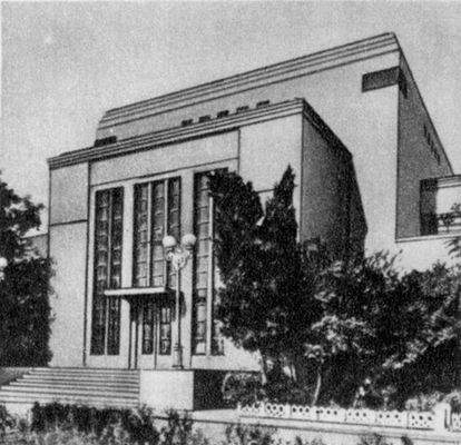 Phisico terapie institut in Baku